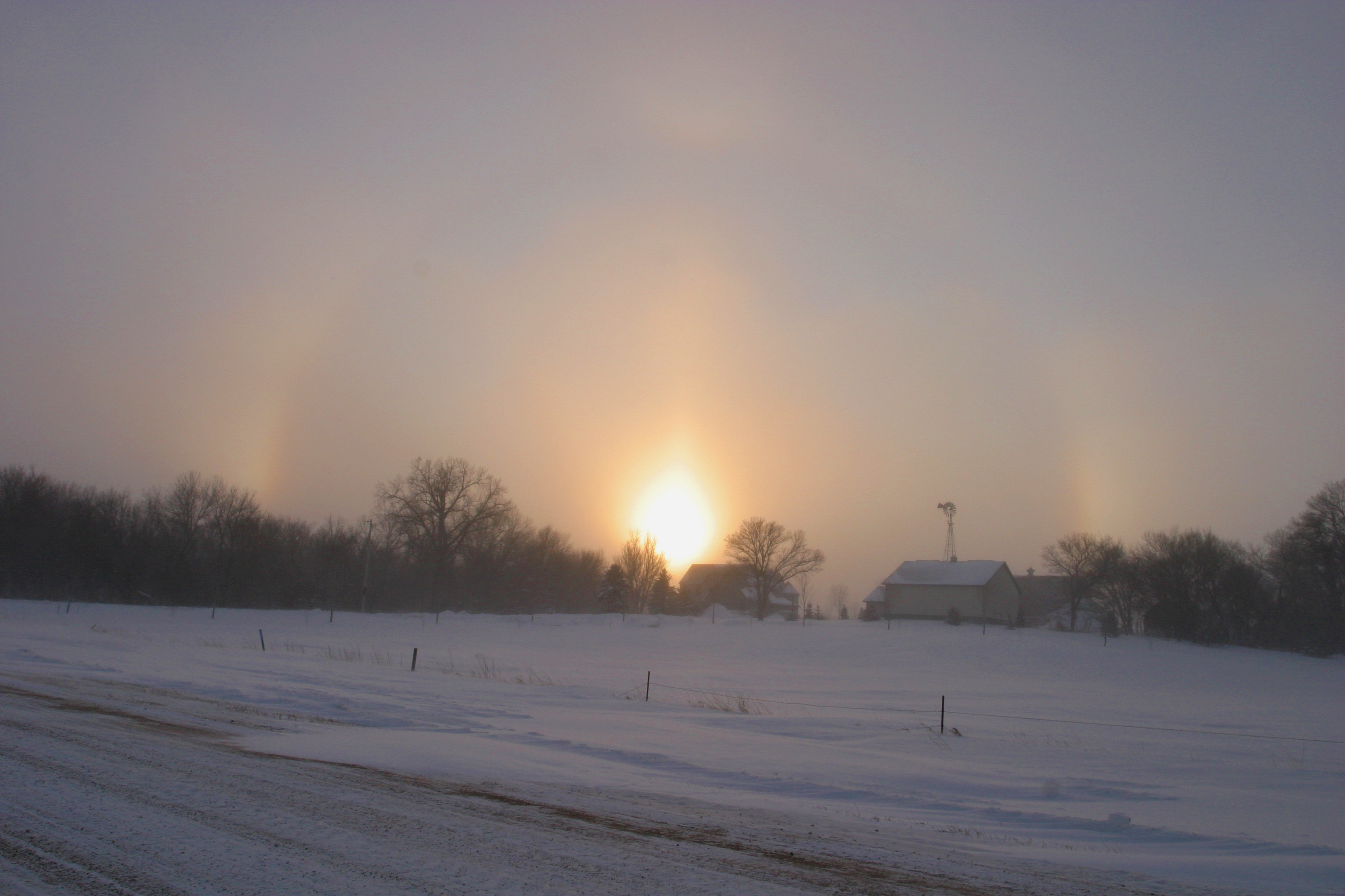 Late afternoon under a blizzard warning in SW Minnesota sundogs began to appear over a farm in Minneota.